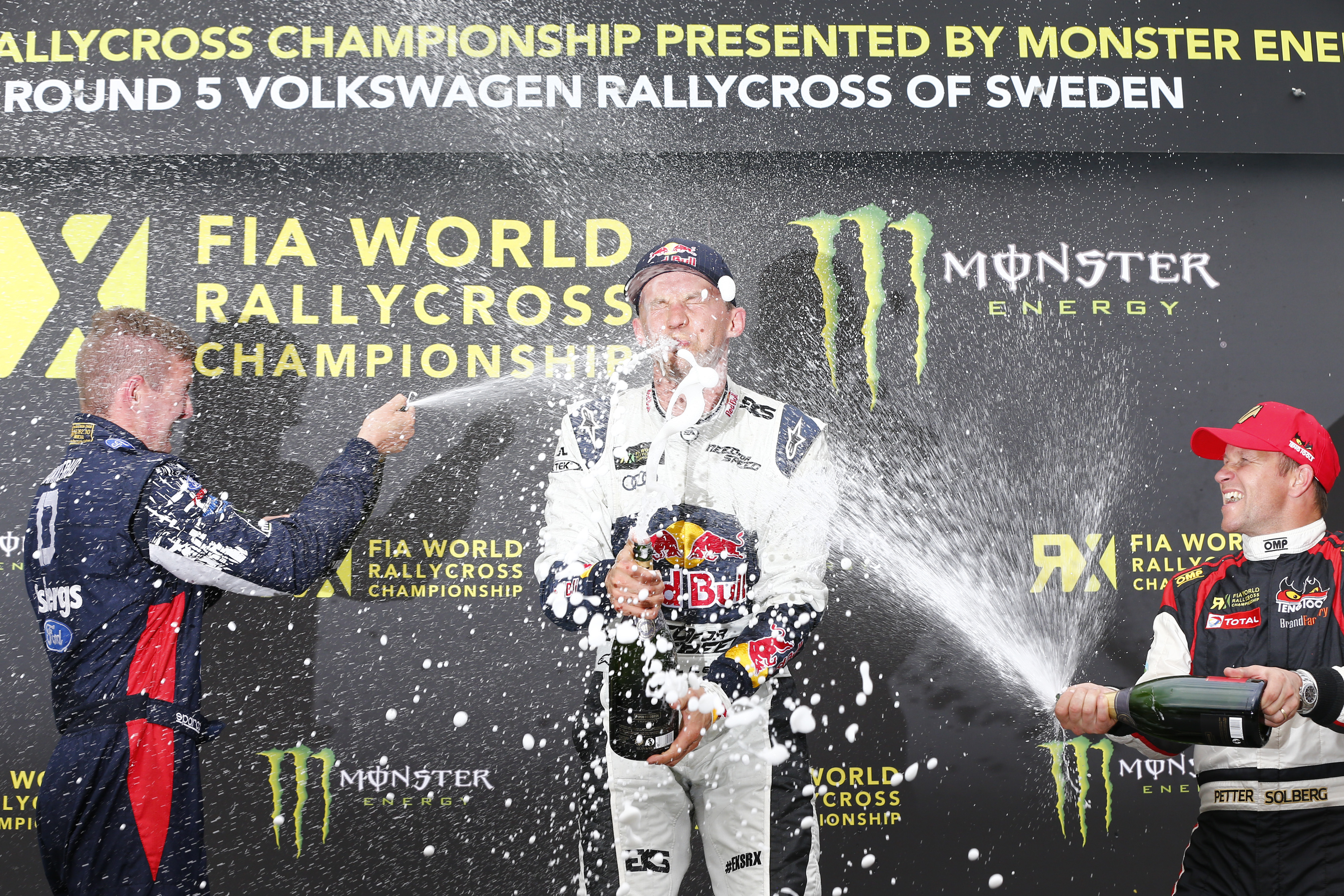 2014 FIA World Rallycross Championship Round 05 Höljes, Sweden 5th & 6th July 2014 Worldwide Copyright: EKS/McKlein